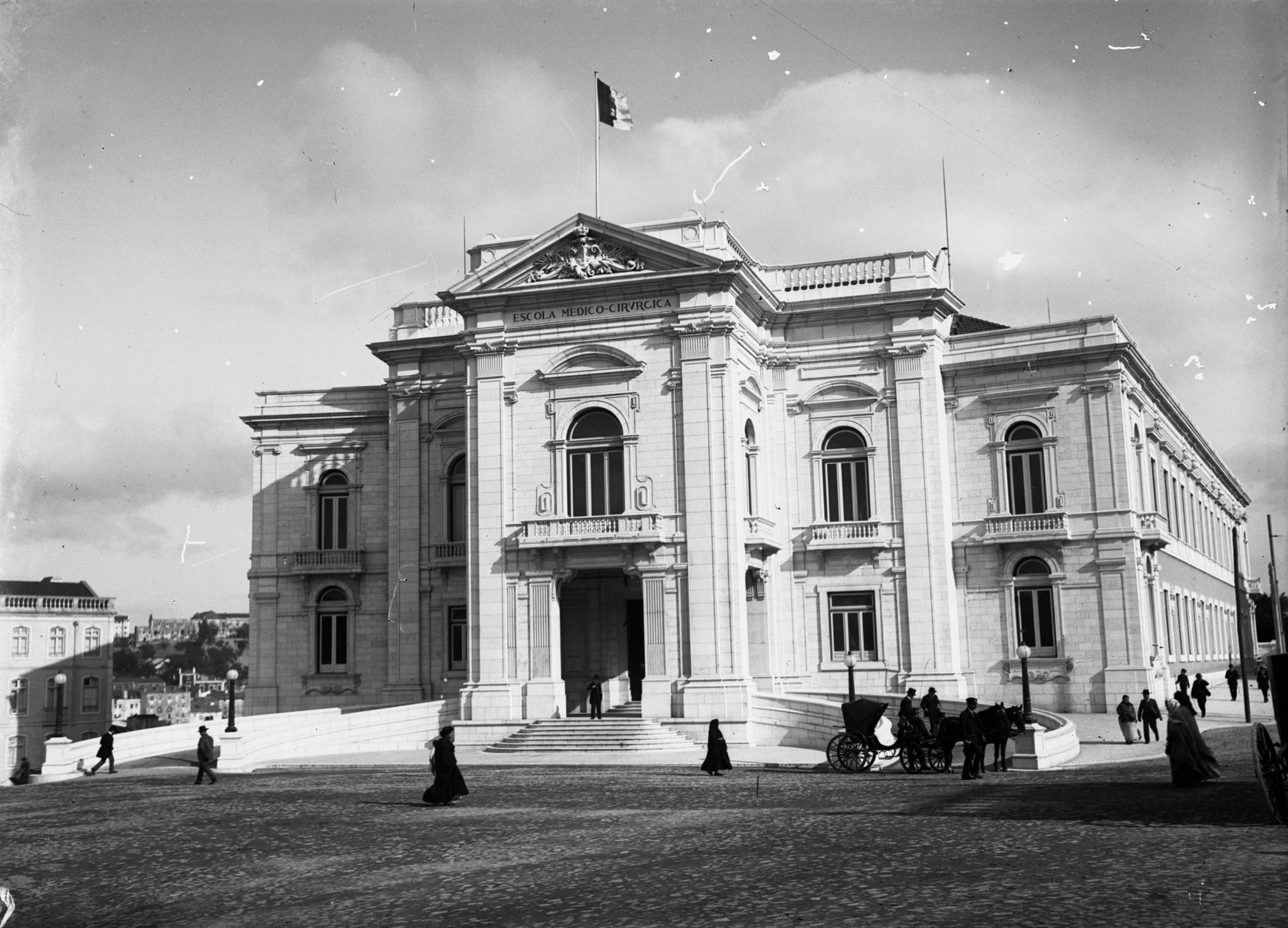 The Lisbon Medical-Surgical School, sometime between 1900 and 1910.